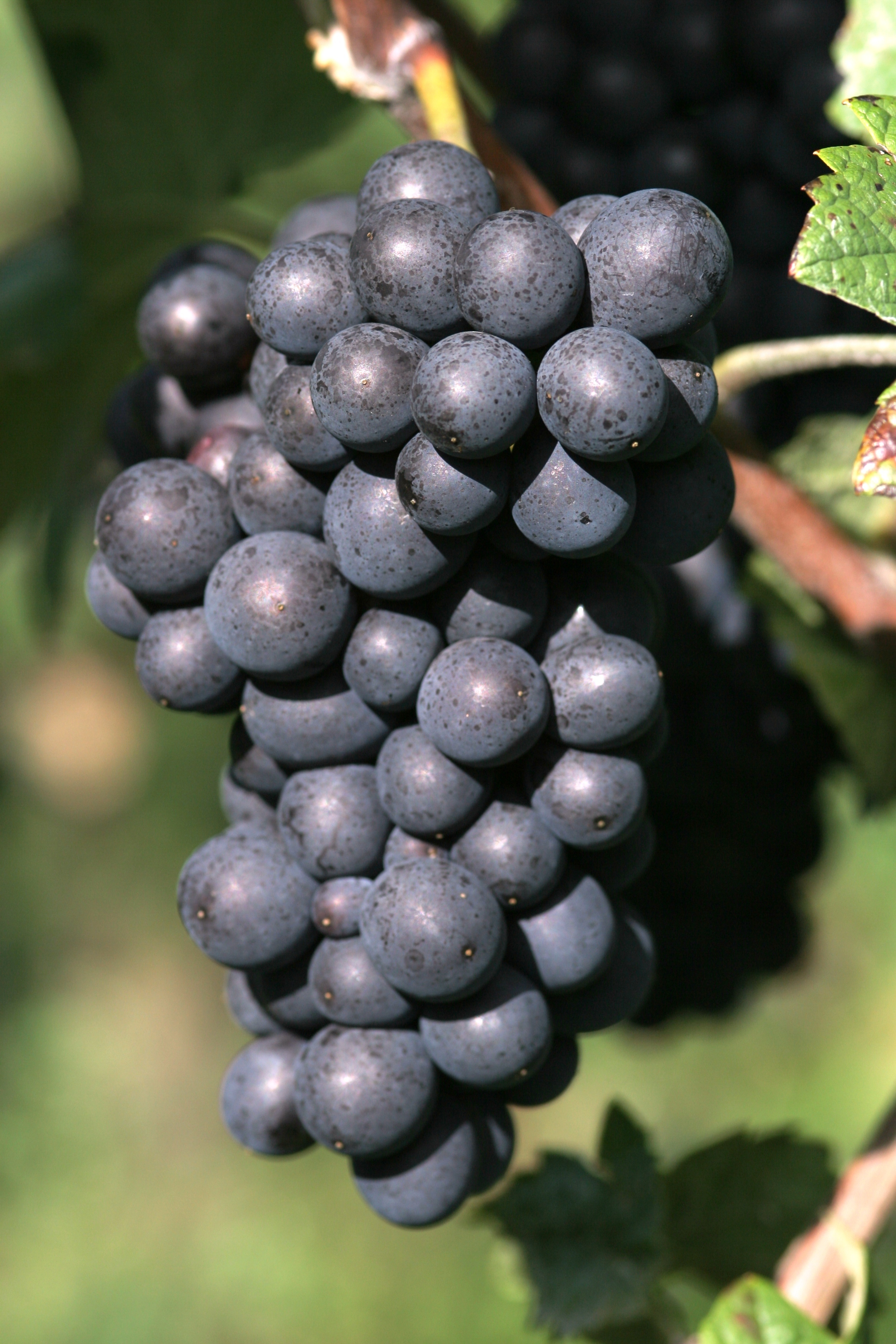 A grape of the Pinot meunier variety